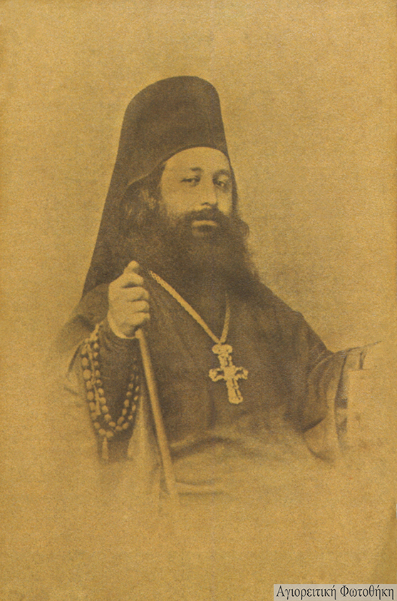 Dorotheus of Korca